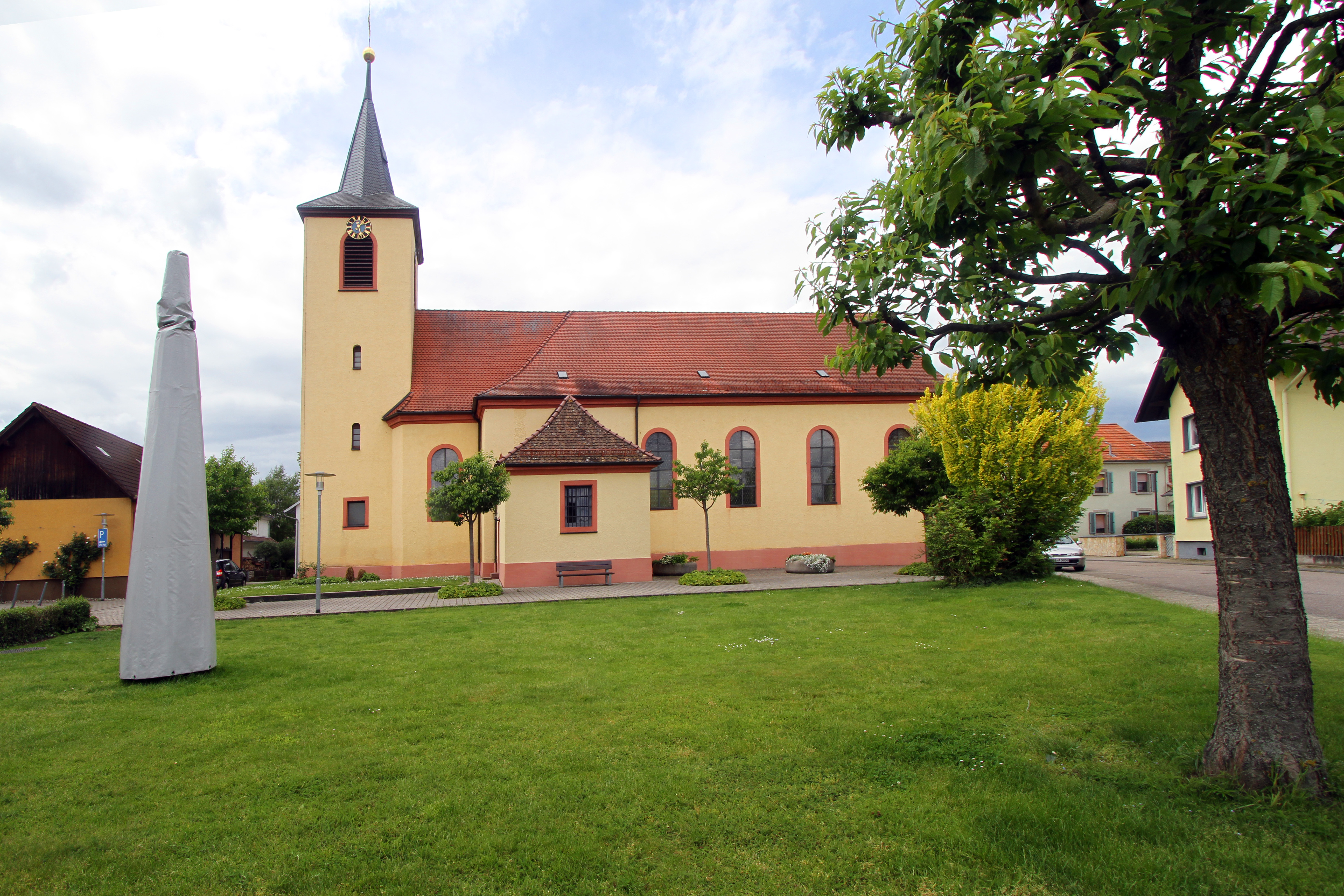 Church of Hl. Kreuz in Lichtenau-Ulm.